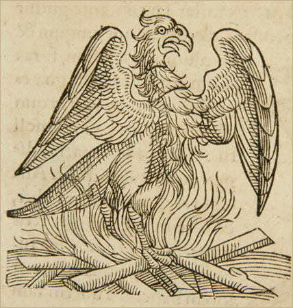 Phoenix illustration from Lykosthenes' book